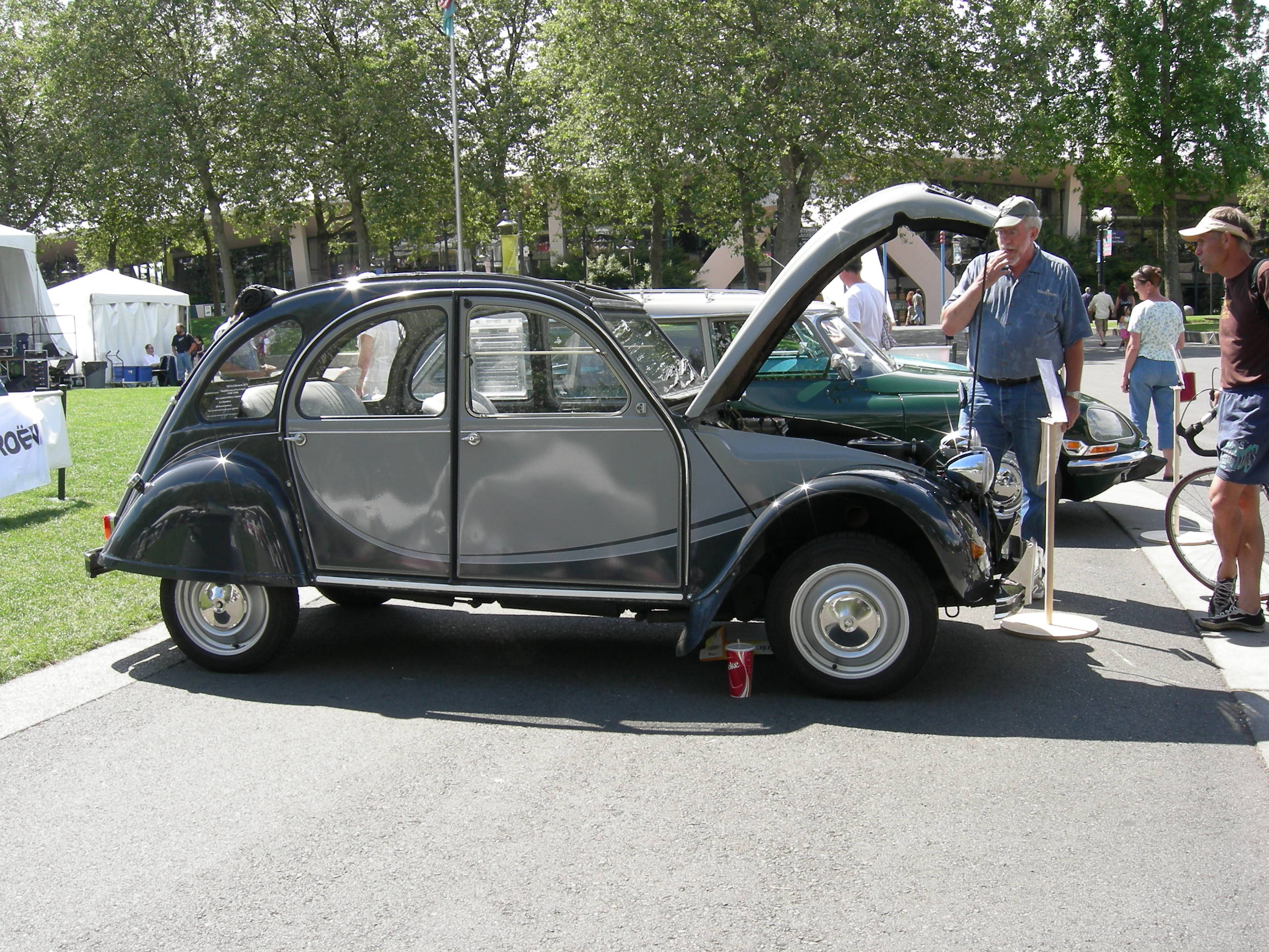 Reconditioned 1974 Citroën 2CV, photographed at the Bastille Day celebration that is part of the Festál series of festivals at Seattle Center, Seattle, Washington.